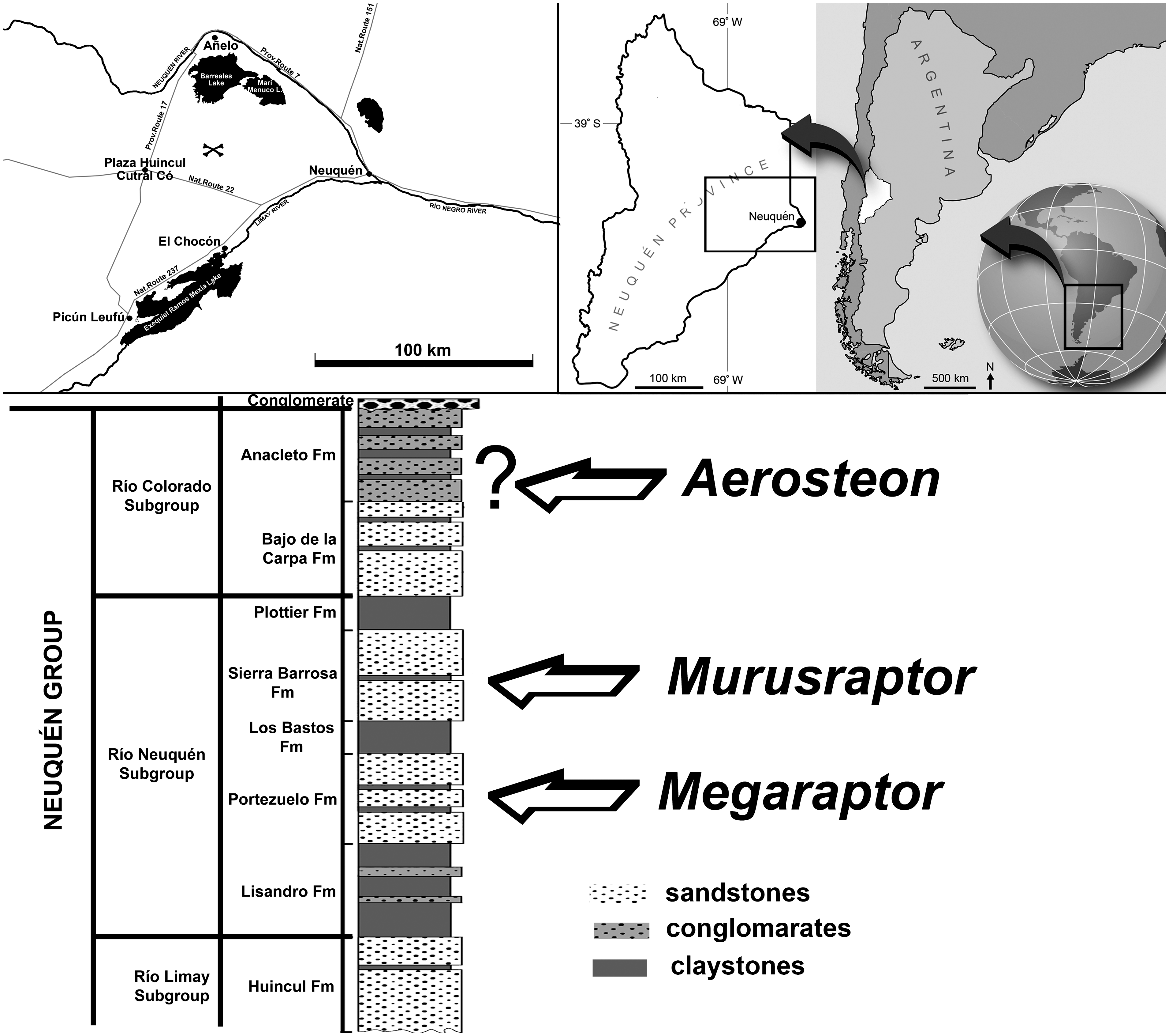 Location and geological context of the holotypeof Murusraptor barrosaensis, MCF-PVPH-411. A) Star marks collecting locality of holotype. B) Stratigraphic table and geologic section indicating the provenance of the megaraptorins recorded in the Neuquén group (modified from [41]).